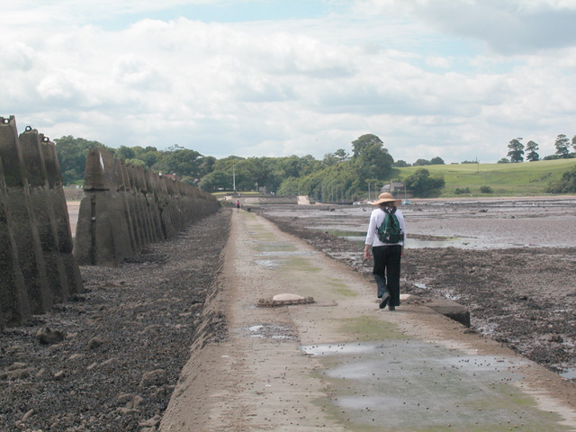 The Long Walk. On the causeway, built on the course of a pipeline from Cramond Island to Cramond and vice versa - of course.